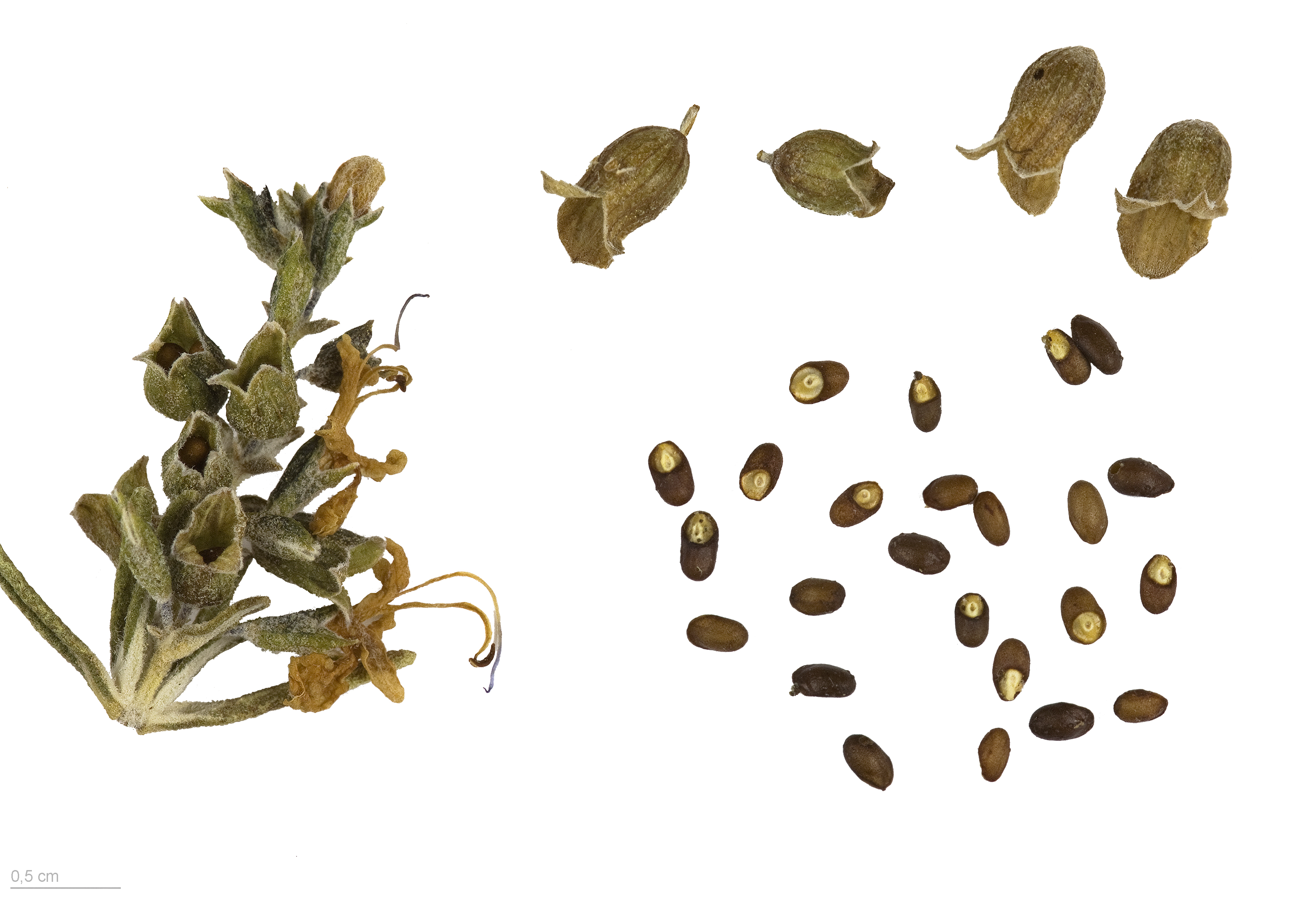 rosemary , fruits and seeds